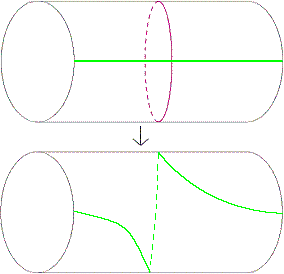 A depiction of a positive Dehn twist on a cylinder about the red curve, showing what it does to the green curve.